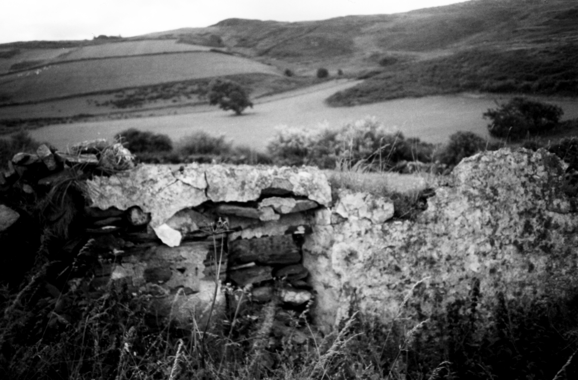 Picture of house in Ardagh .